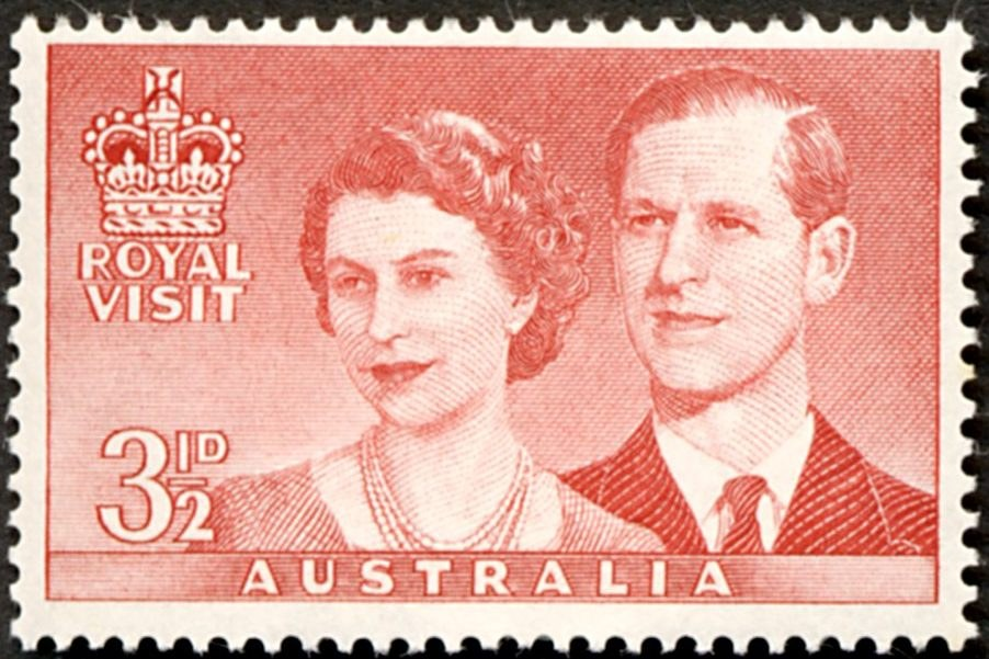 A postage stamp of Australia issued 1954